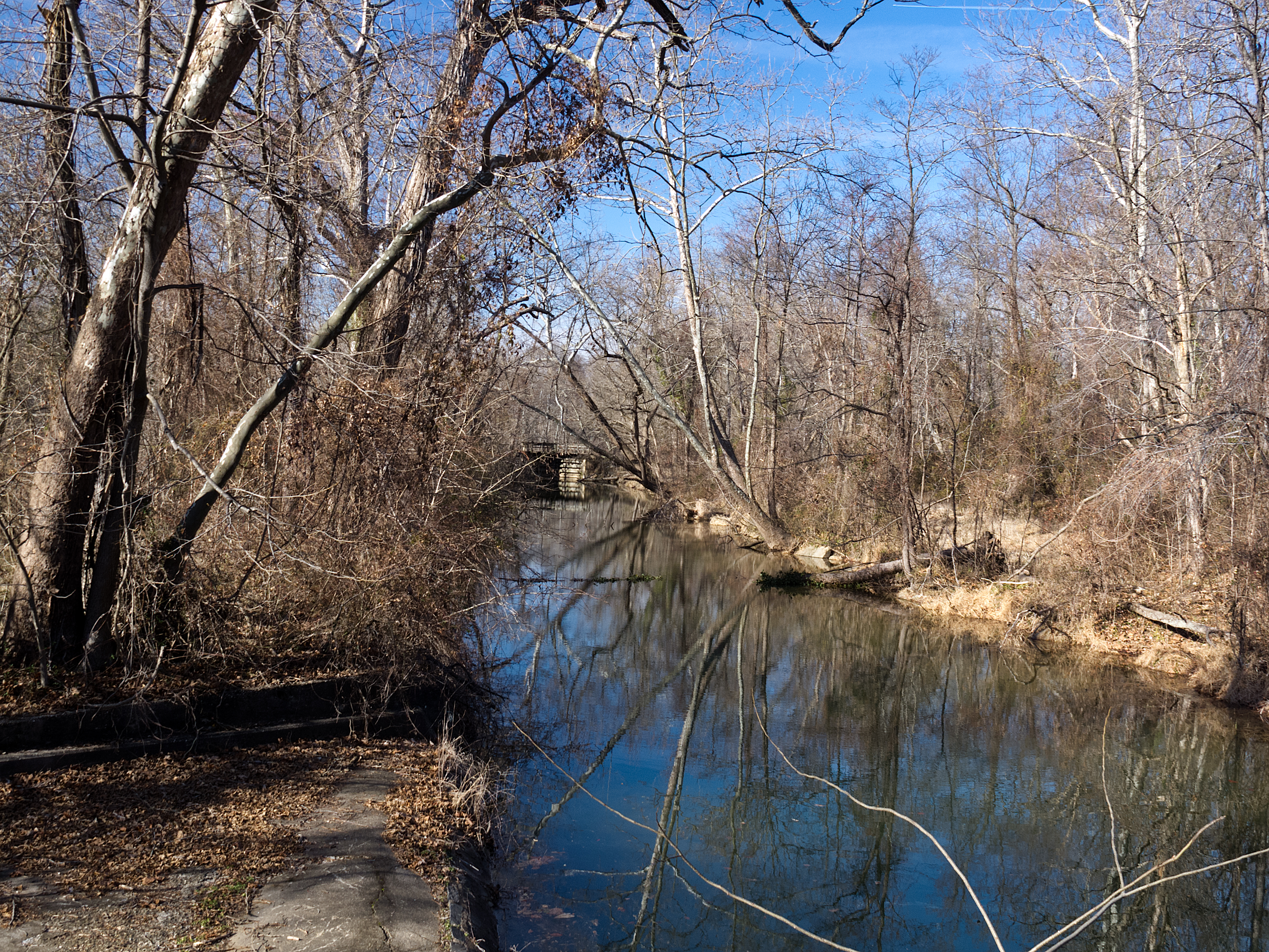 Remains of old Patowmack Canal (George Washington's Little Falls Skirting Canal) used as a feeder for the Chesapeake and Ohio Canal. This is the section between the two feeder canal's gates.